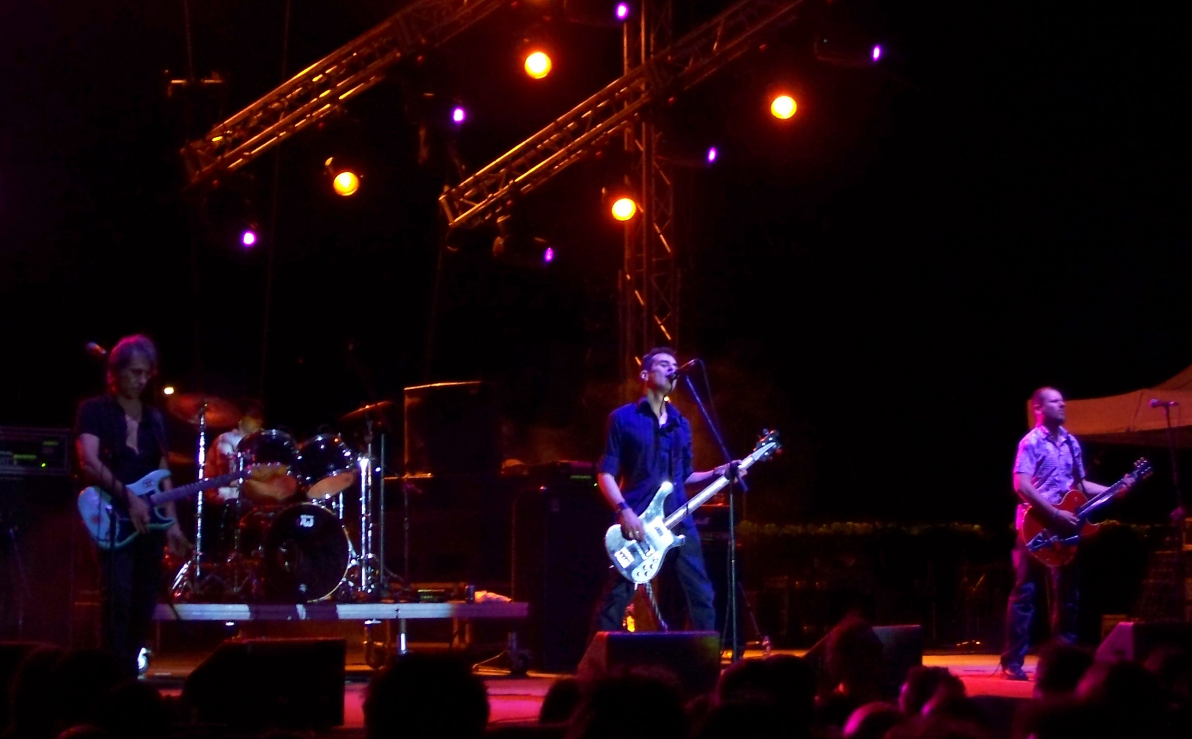 Greek garage band The Last Drive live in Athens July 2007 at the Open Air fest.